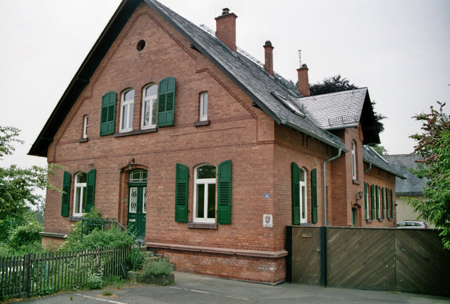 Forstamt Chausseehaus, Wiesbaden, Germany